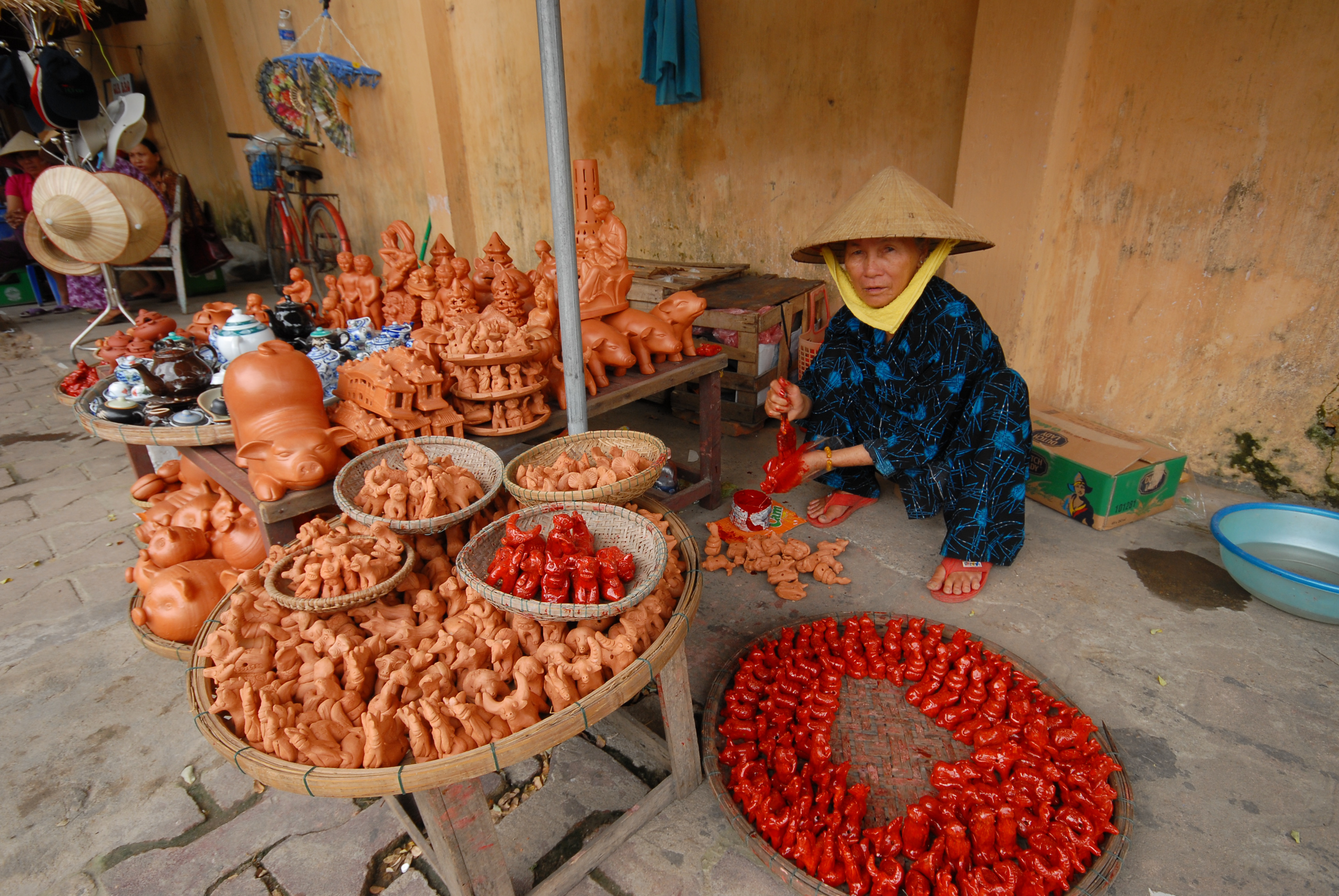 An aged woman wearing traditional Vietnamese clothes, selling fictile craft souvenirs in one of Hoi An Ancient Town streets. Quang Nam province, South Central Coast, Vietnam